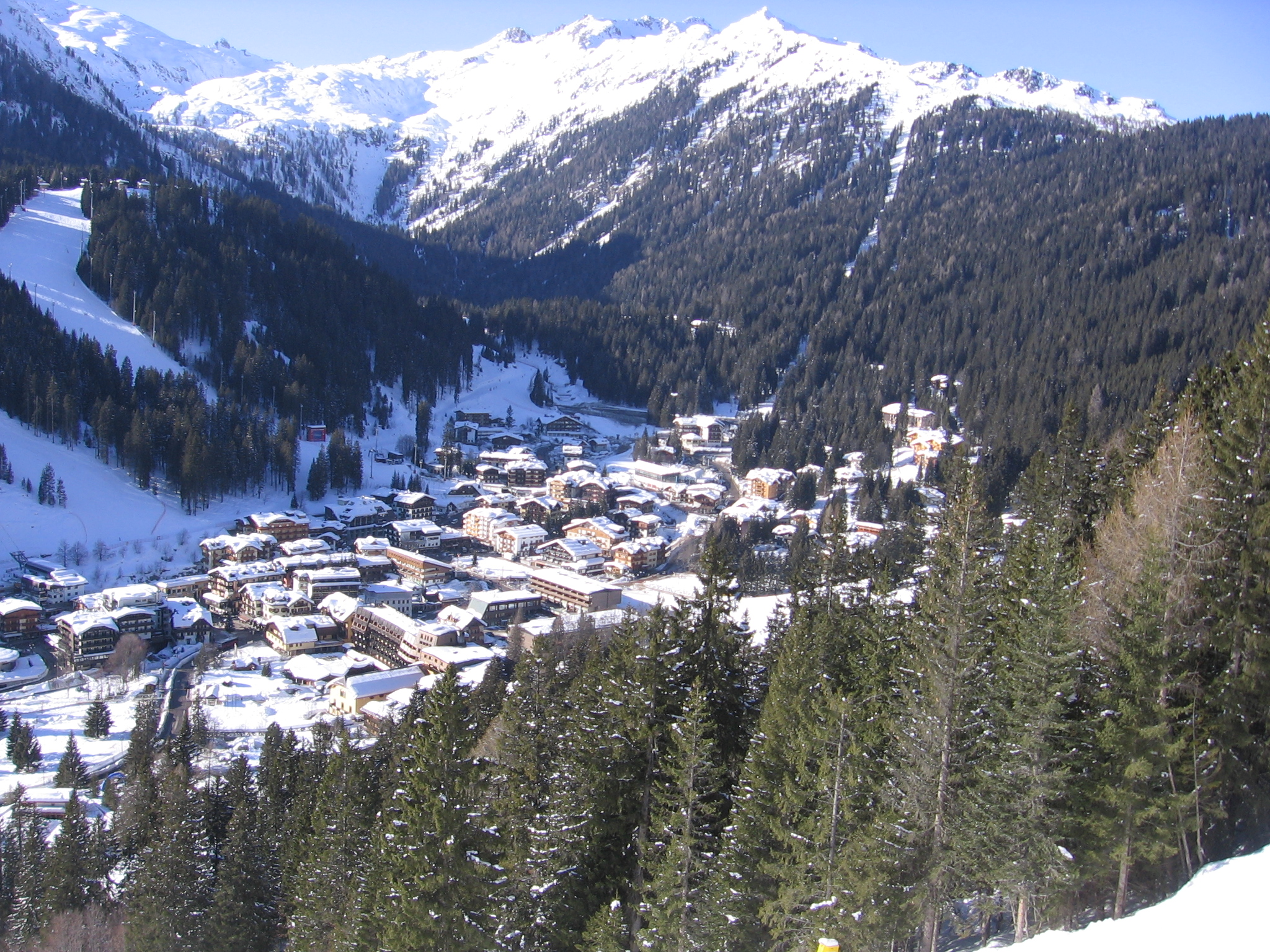 View of Madonna di Campiglio (Italy) from east.